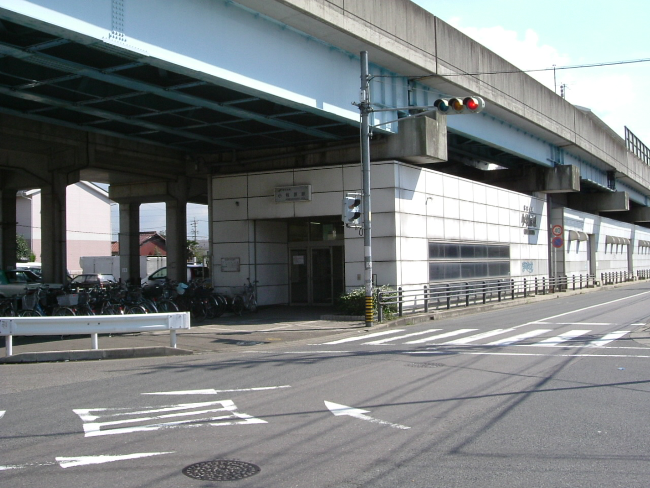 Komakihara Station is a train staion in Komaki, Aichi, Japan, on the Komaki Line and Tokadai Line. This station building is the Tokadai Line's. 小牧原駅は、愛知県小牧市にある小牧線と桃花台線の駅。この駅舎は桃花台線のもの。